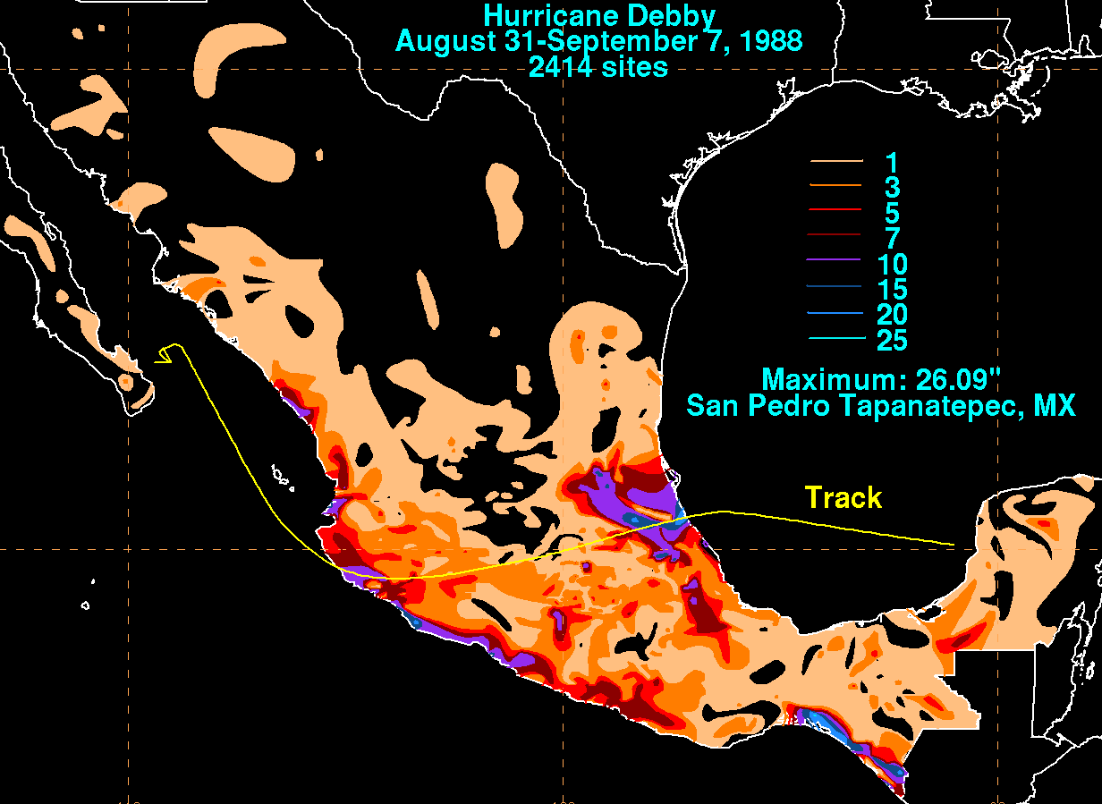 Storm total rainfall map of Hurricane Debby during August and September 1988.